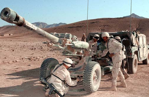 Soldiers with the 3rd Battalion, 7th Field Artillery Regiment, 25th Infantry Division (Light), Schofield Barracks, Hawaii, position an M119A1 Howitzer near Forward Operating Base Cobra, Afghanistan, in support of soldiers from the 2nd Battalion 5th Infantry Regiment who participated in Operation Crackdown, 23 October 2004.